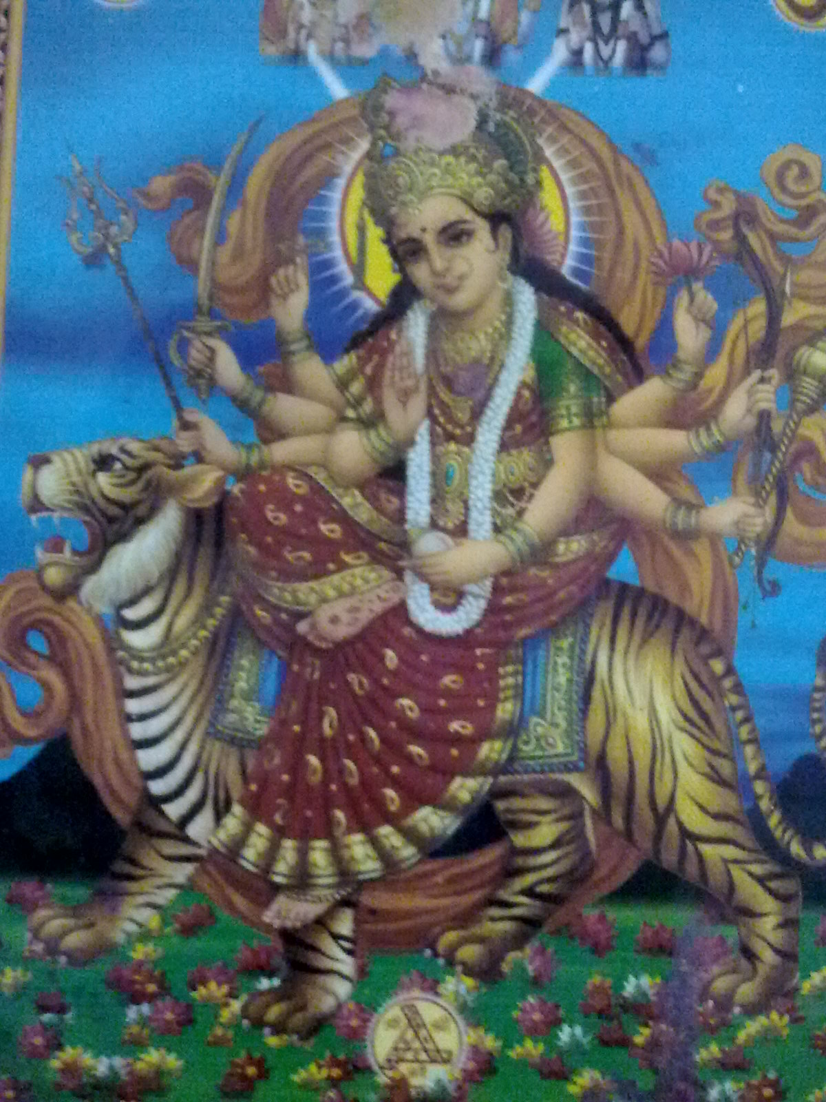 Goddess_durga photo by the uploader